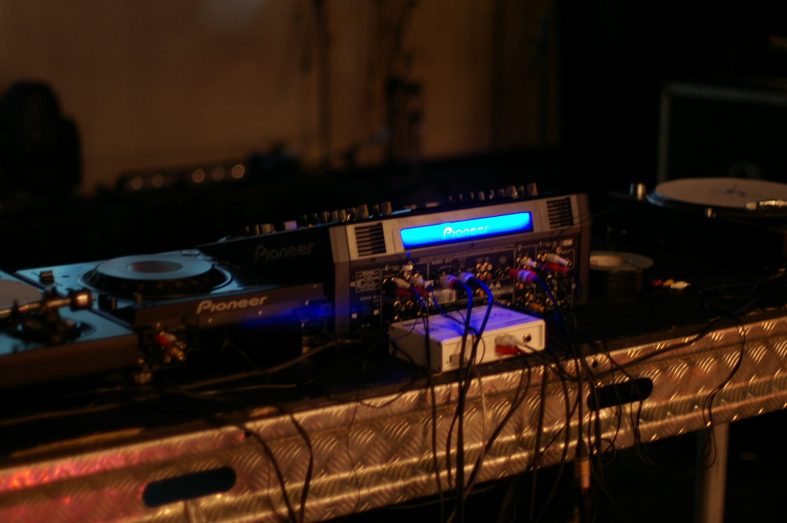 Pioneer SVM-1000 Professional Audio/Visual Mixer Pioneer DVJ-1000 Professional DVD/CD/MP3 Turntable